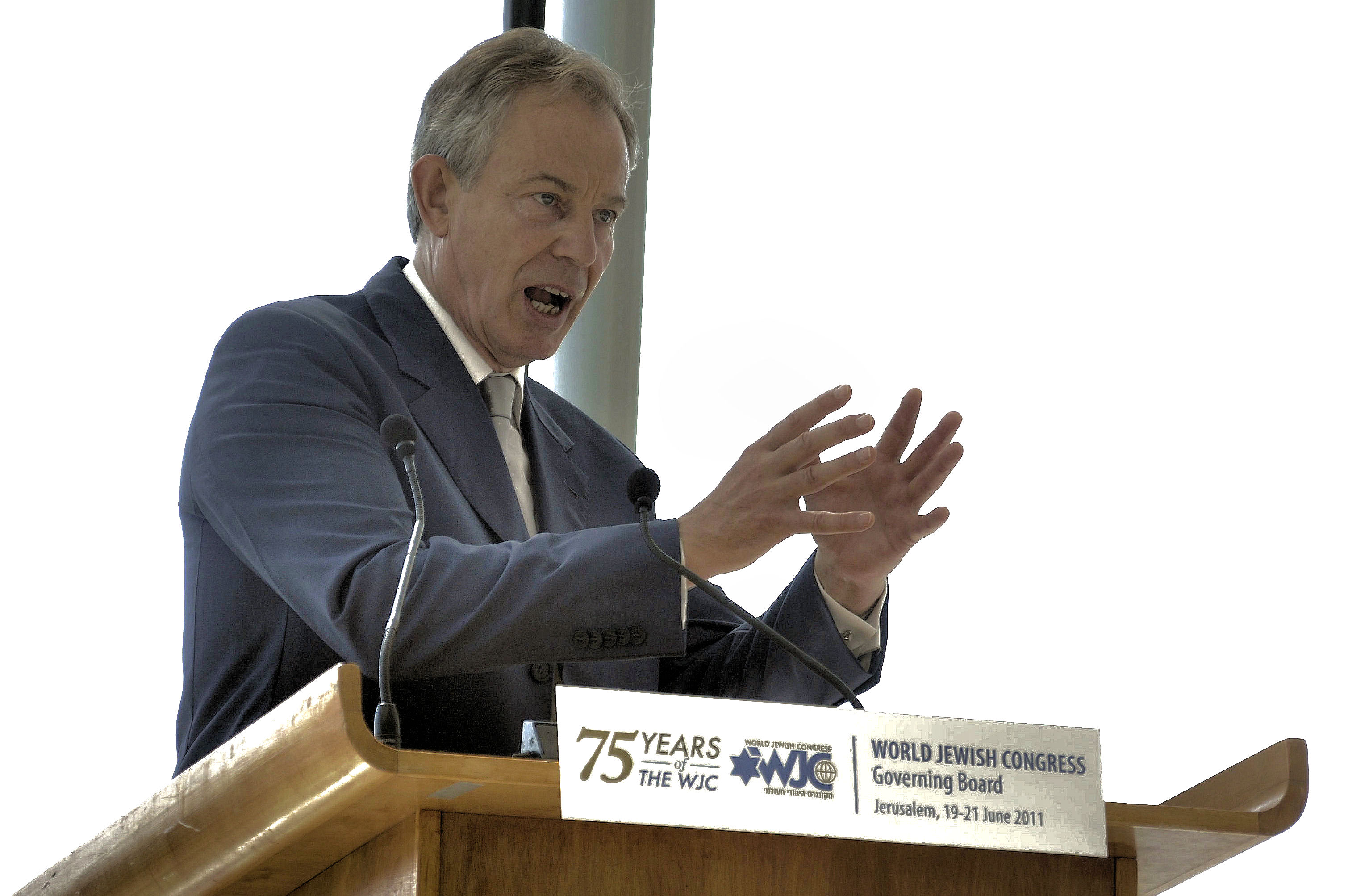 International Quartet Envoy and former British Prime Minister Tony Blair addressing a gathering of the World Jewish Congress in Jerusalem